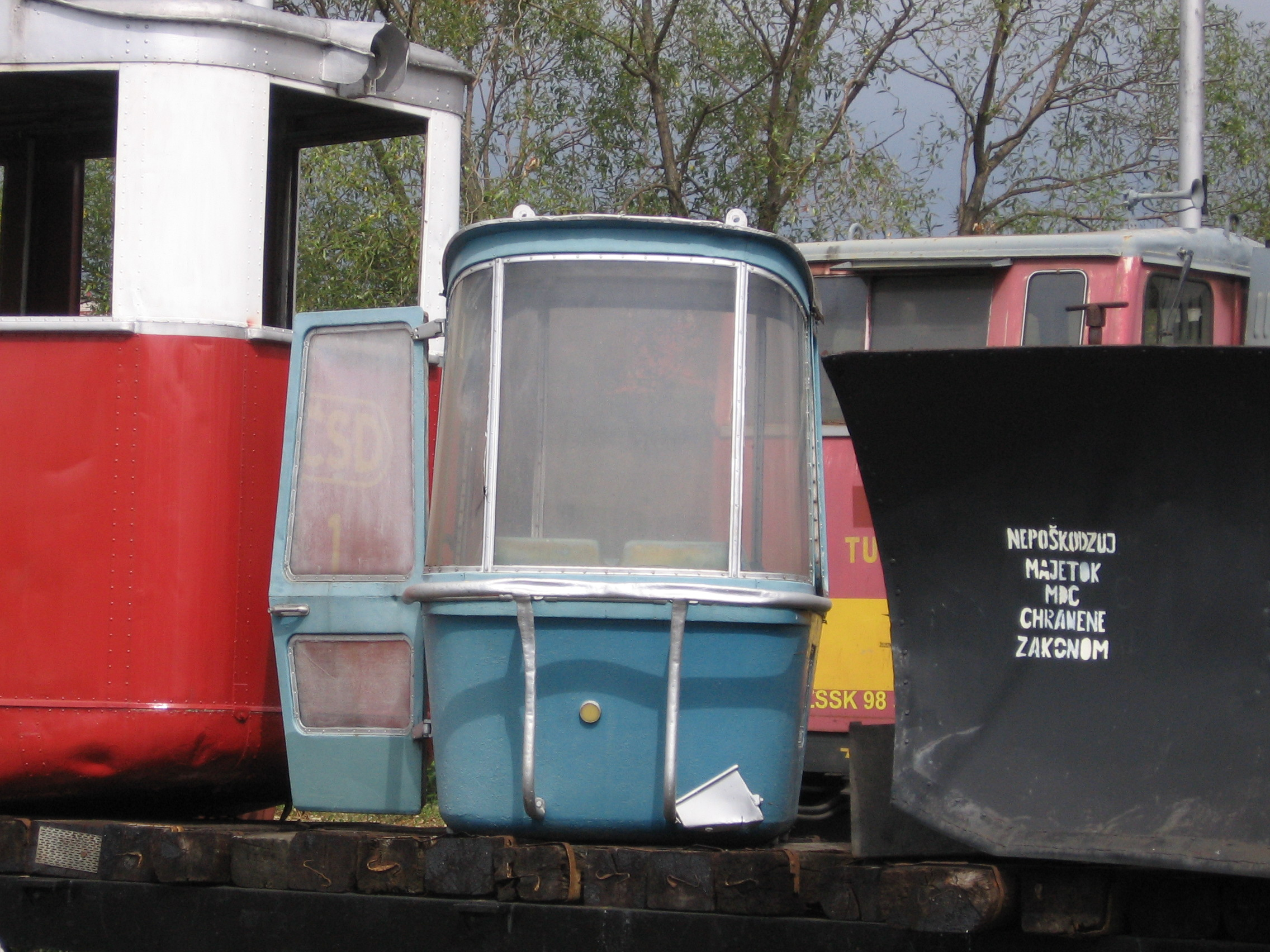 Gondola of Skanalte pleso cableway